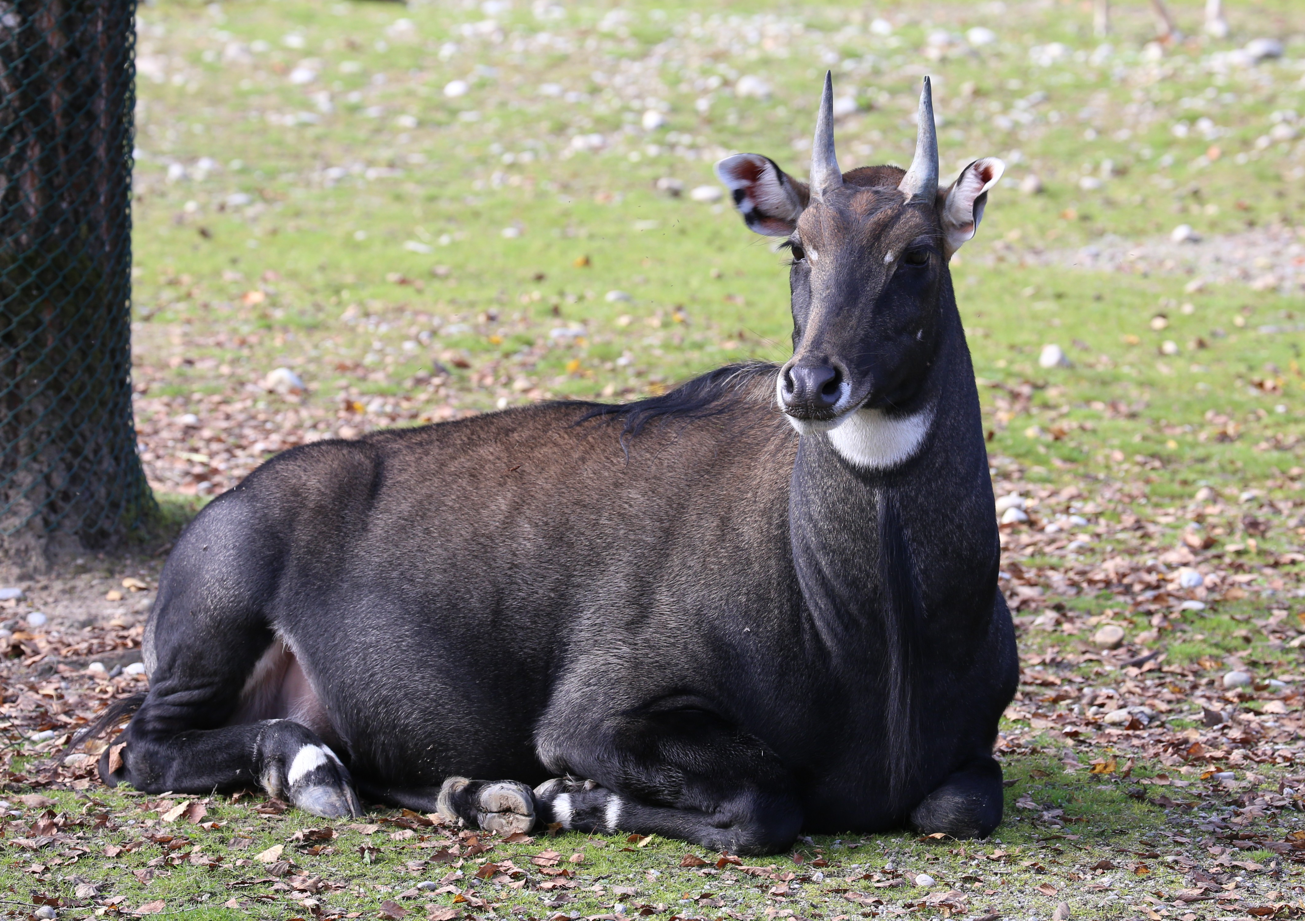 Nilgauantilope (Boselaphus tragocamelus), Tierpark Hellabrunn, München